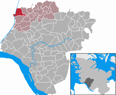 This map shows the area of the municipality Holstenniendorf in the Kreis (district) Steinburg, Schleswig-Holstein, Germany.